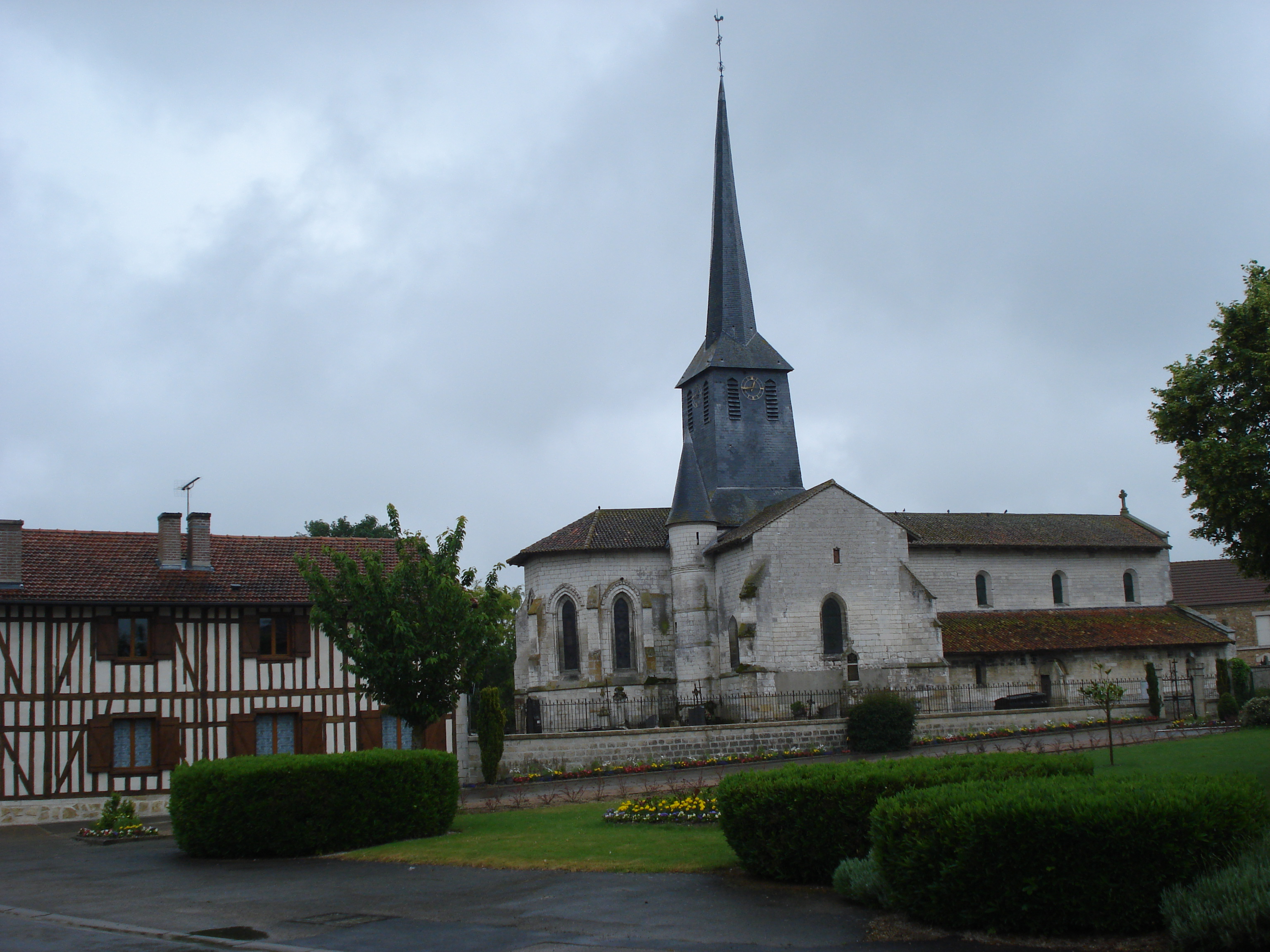 Songy (Marne, Fr) church and timberframe house.